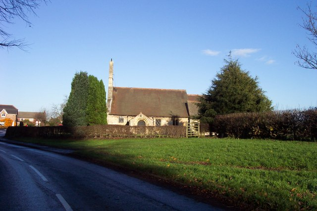 Parish Church of Bilton-In-Ainsty The church dedicated to St Helen contains a ancient stone carvings known as Sheela-na-gigs.